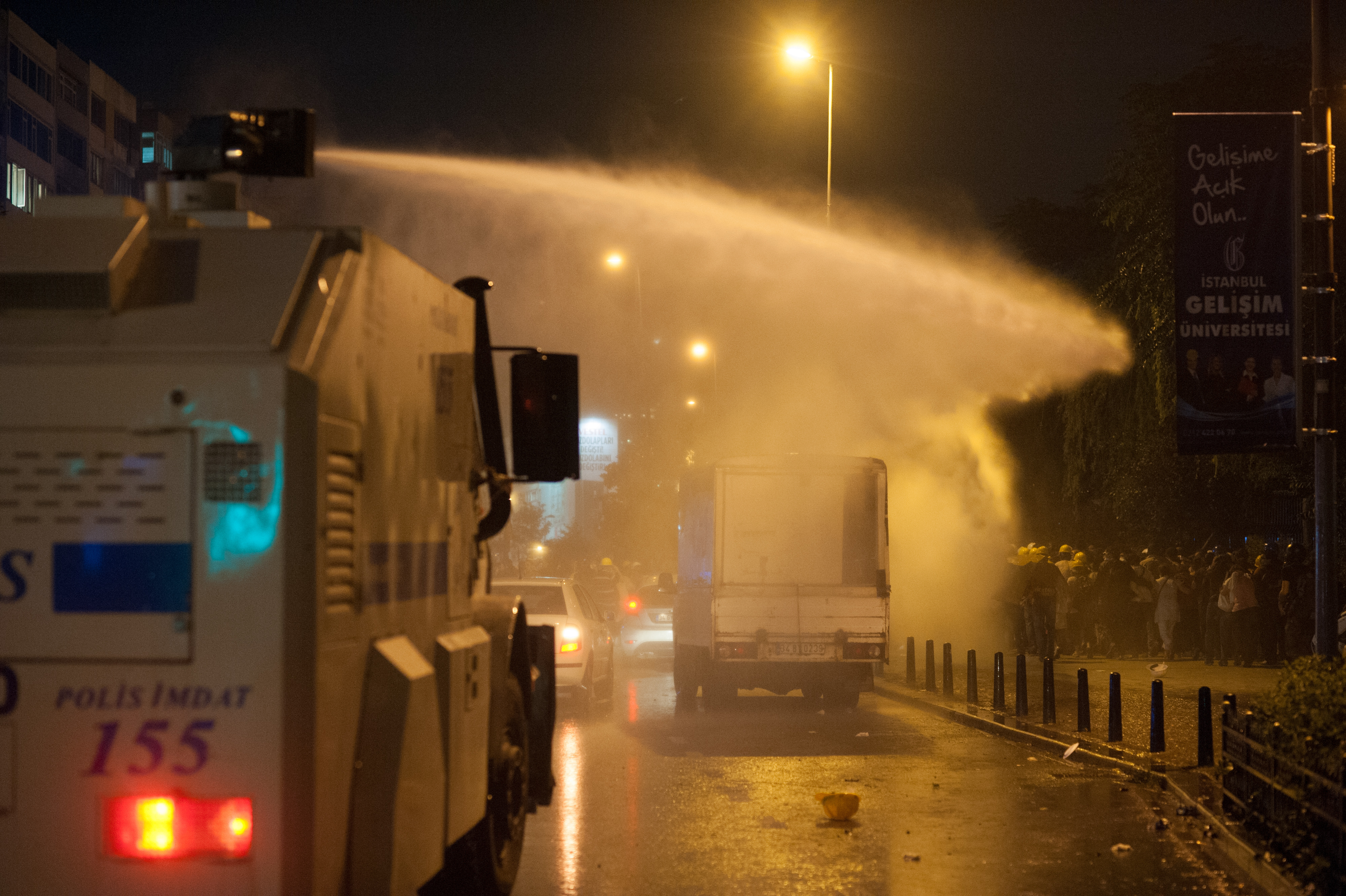 Police action during Gezi park protests in Istanbul. Events of June 16, 2013.